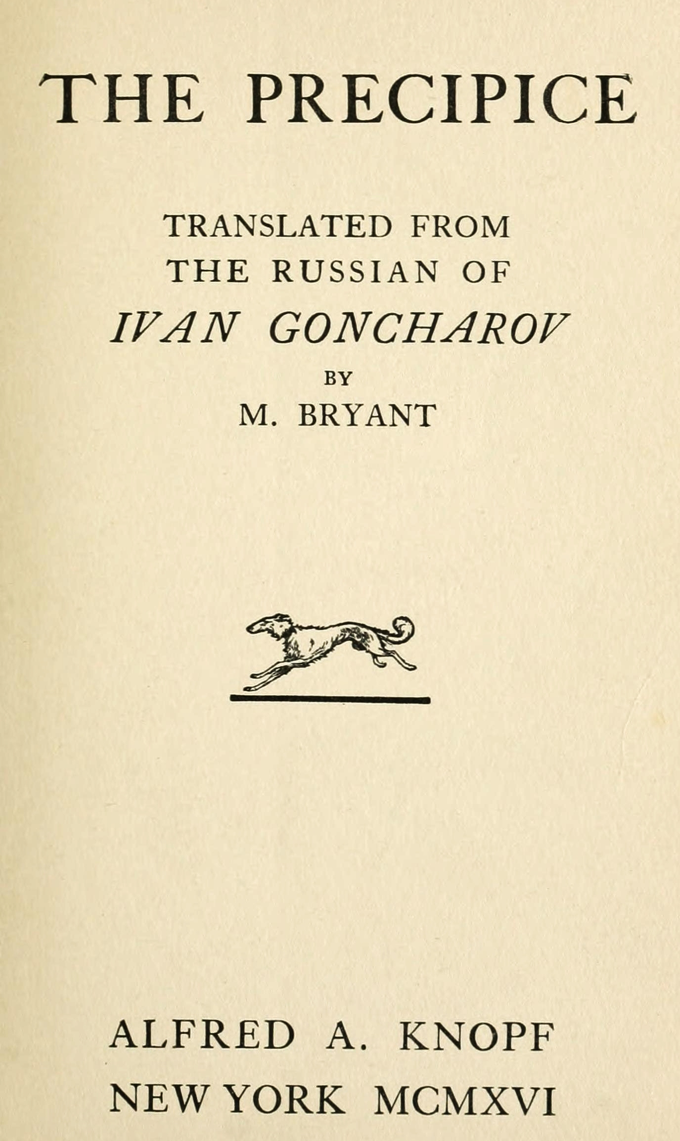 Title page to the 1916 Knopf English translation of The Precipice by Ivan Goncharov